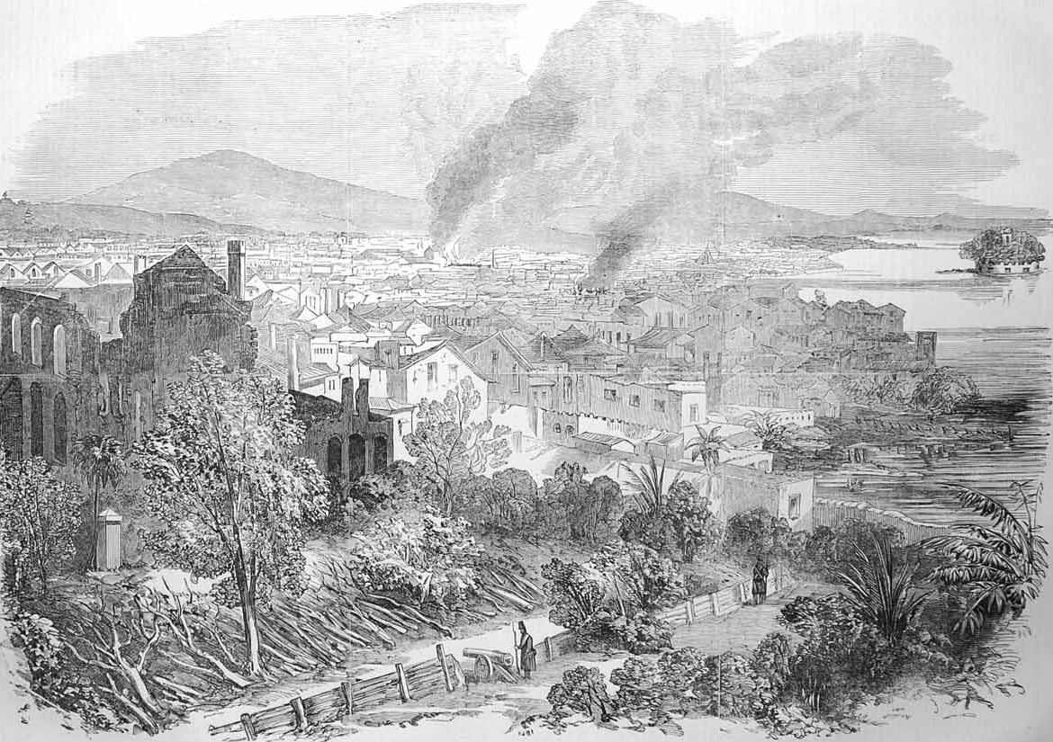 Canton and part of the suburbs, sketched during the conflagration in the city, 1857.